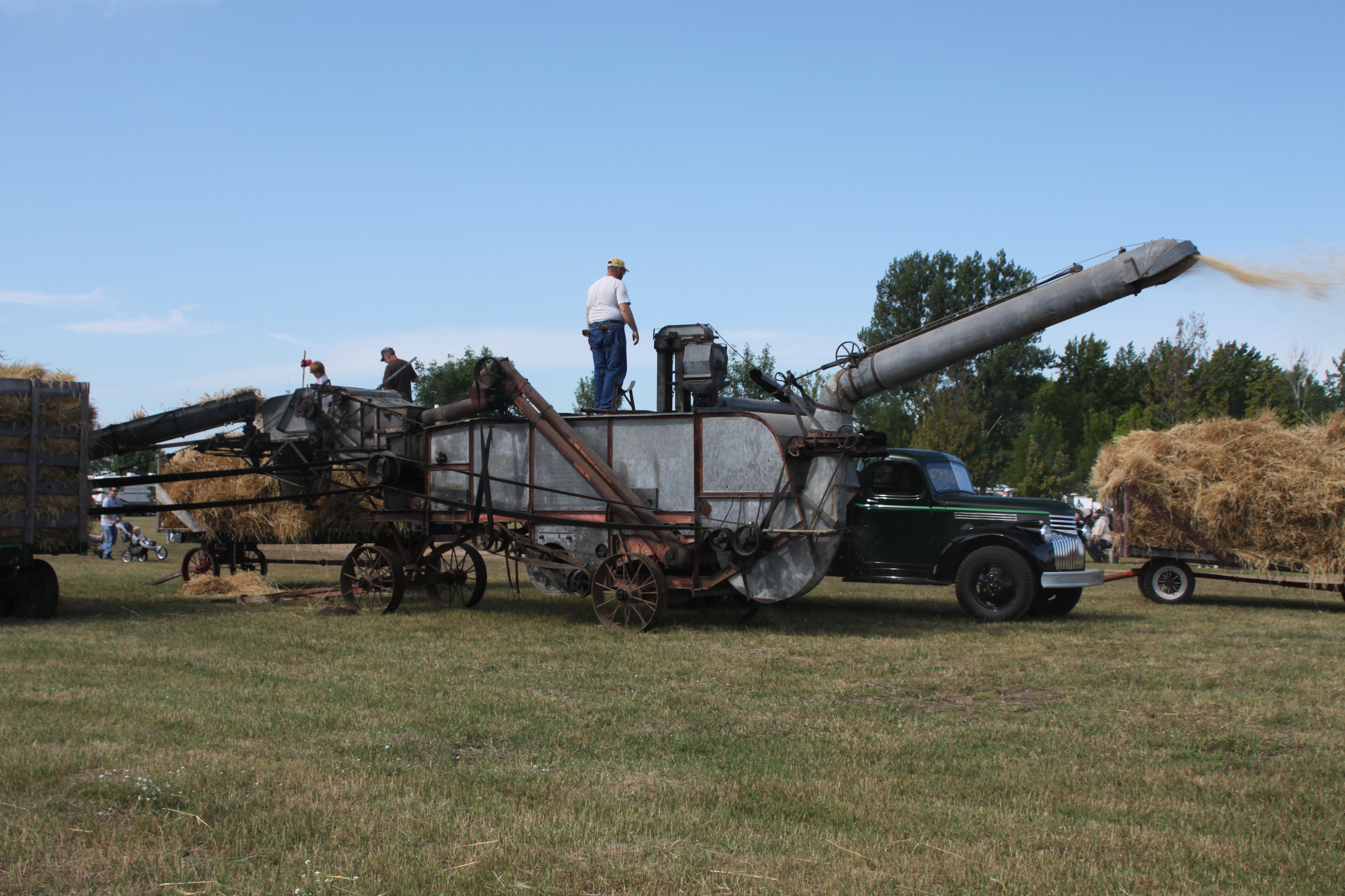 Threshing machine in action